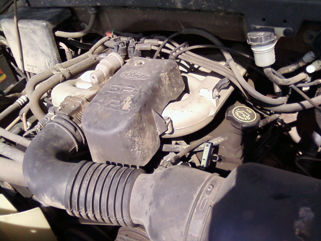 Front view of a 4.2 liter V6 Ford engine in a 1998 F-150. Shows the upper intake, throttle body, air intake, coil pack, clutch reservoir, AC compressor pulley, fan, and primary battery fuse block.